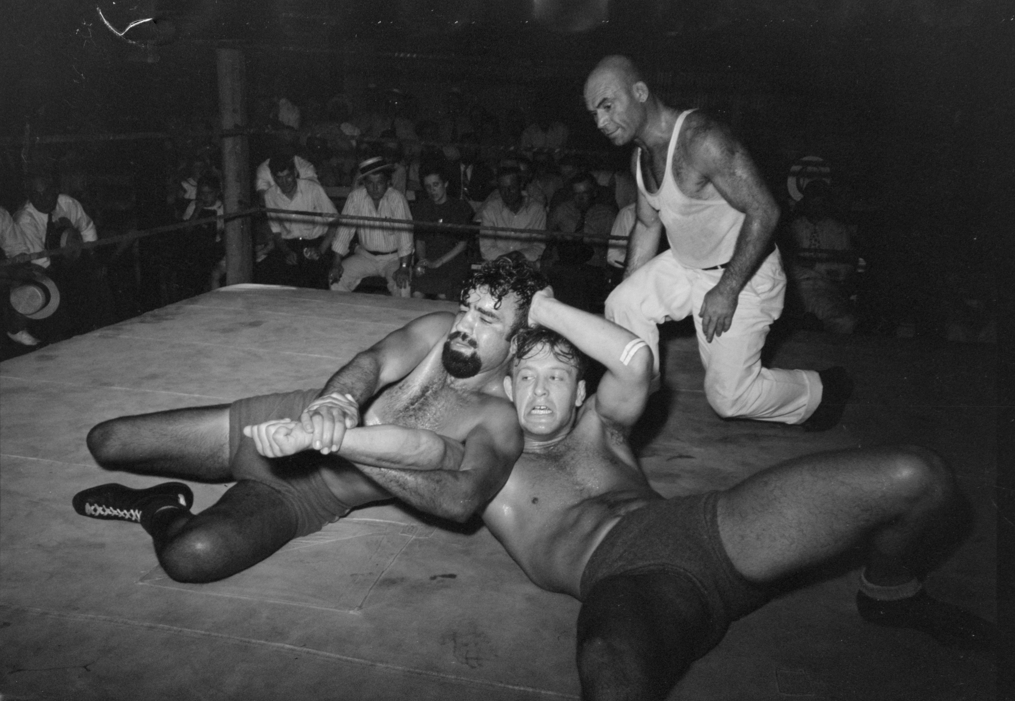 A wrestling match performance in Sikeston, Missouri, May 1938. Two wrestlers grapple while the referee (in white, right) looks on. The bearded wrestler is known as Big Tom Towers. Description on photo: "Wrestling match sponsored by American Legion, Sikeston, Missouri."